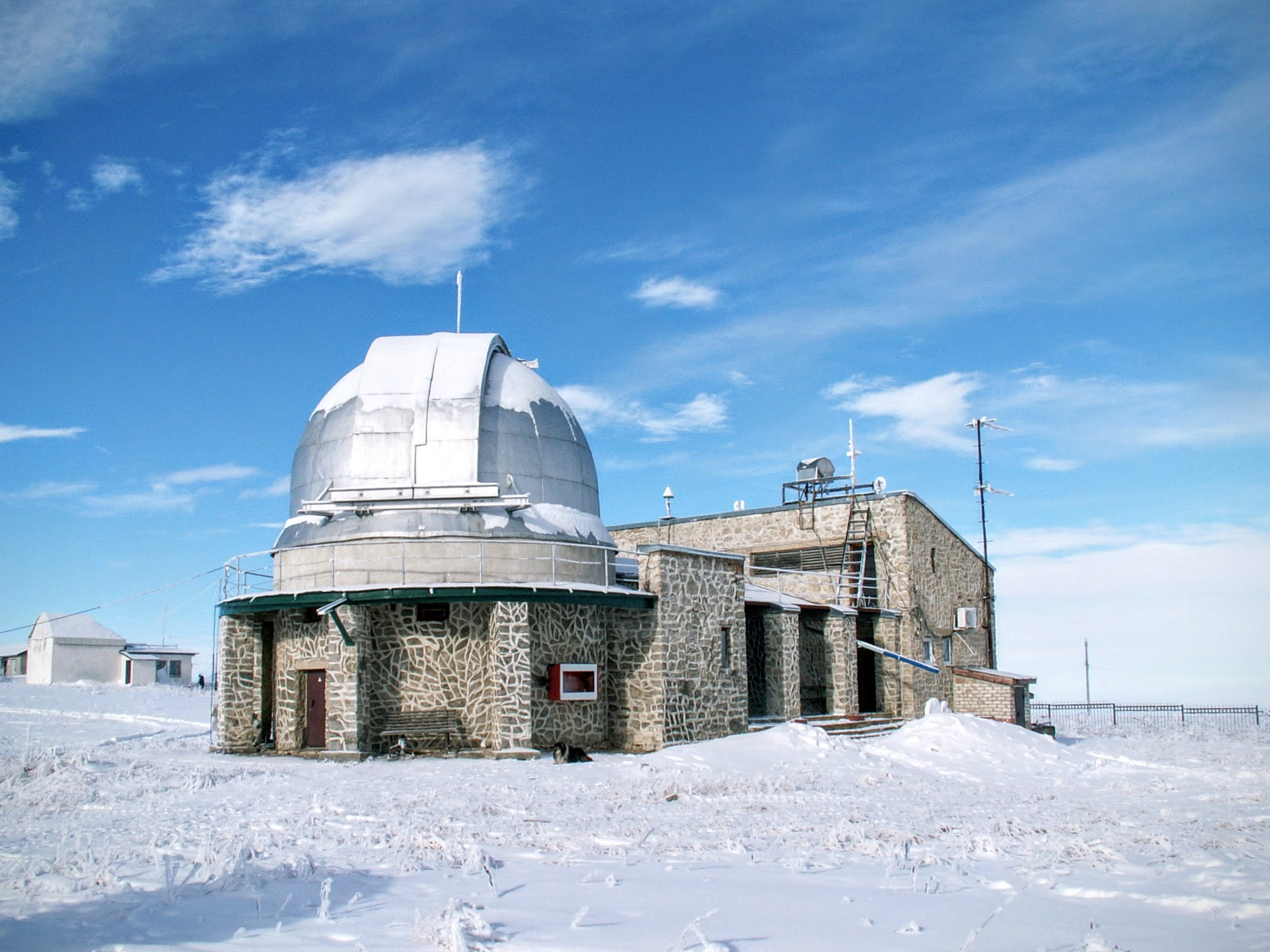 Coronagraph by the French astronomer Bernard Lyot on Kislovodsk astronomical mountain station, Russia.